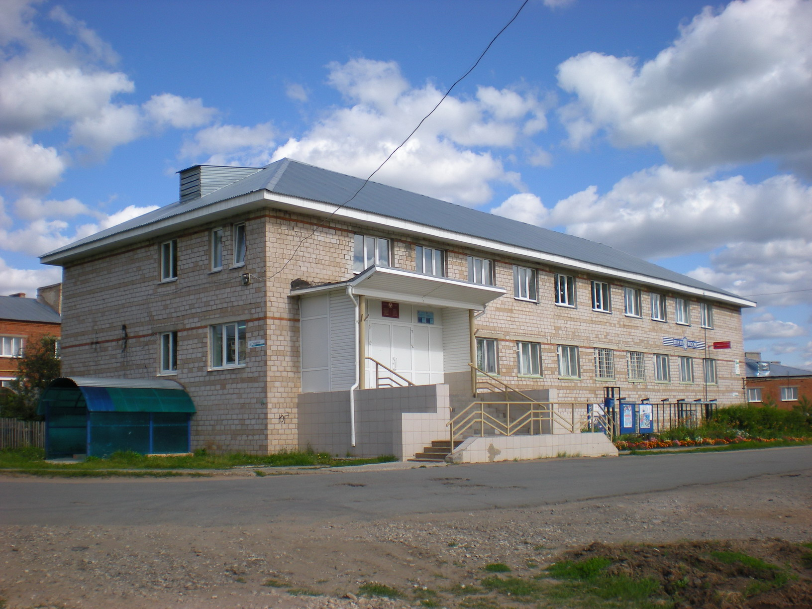 Administration of "Pirogovskoe" municipal union, village of Pirogovo, Zavyalovsky District, UdmurtiaУдмурт: «Пироговское» муниципал кылдытэтлэн администрациез, Пероггурт, Дэри ёрос, Удмуртия